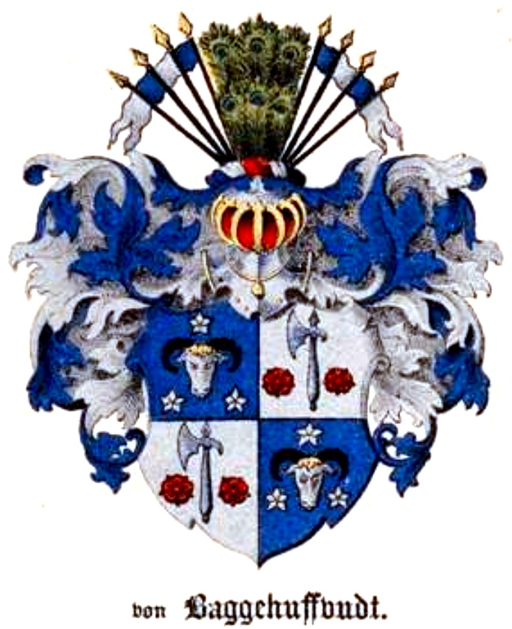 Coat of arms of Baggehufwudt family.